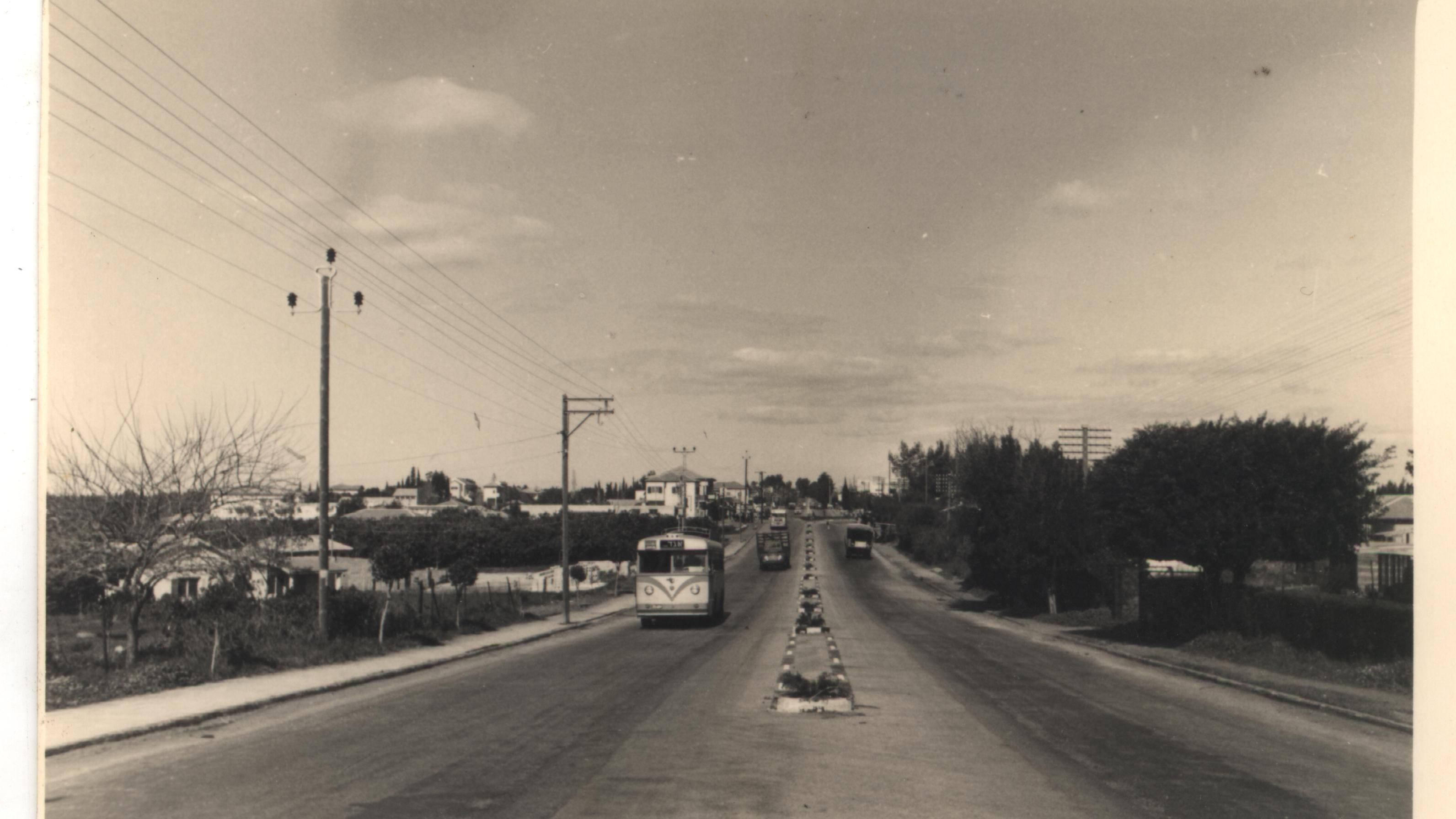 derech RamataimS treet was derech Hasharon south to north, the photographer stands close to Jabotinsky Street before referral to the mall